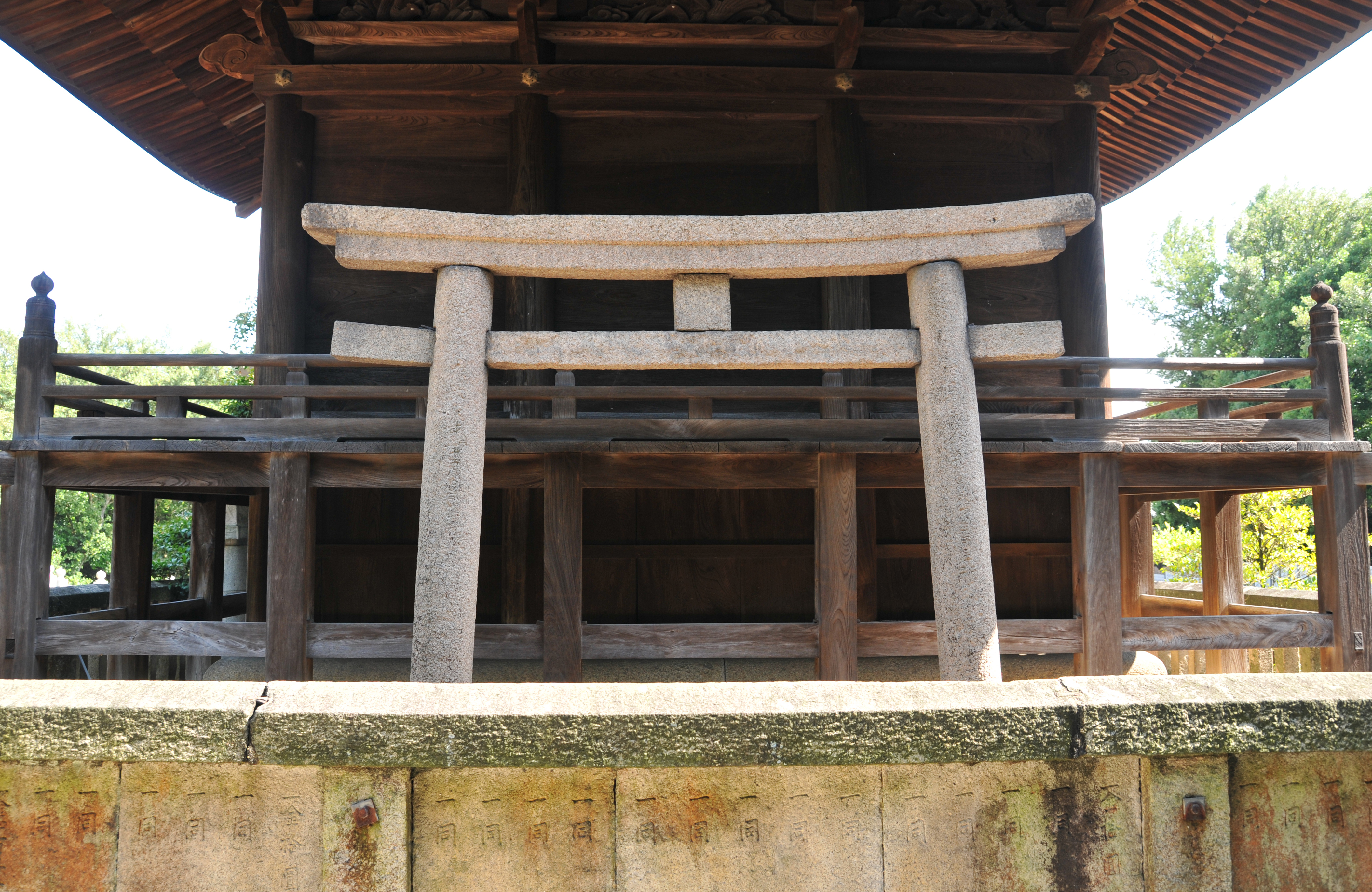 Stone torii gate with inscription of 1421(Japan's national important cultural property), Honjō Hachimangū, Okayama, Japan